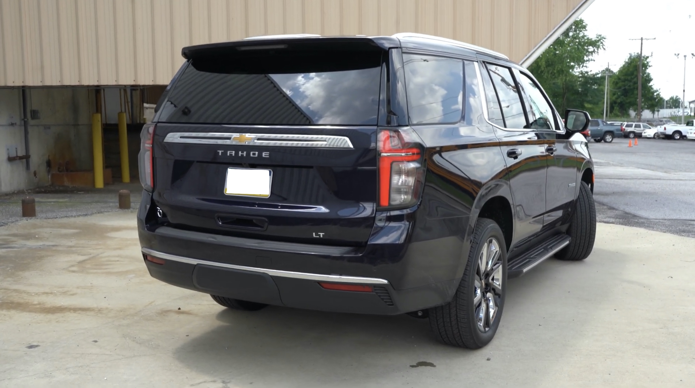 2021 Chevrolet Tahoe (United States)